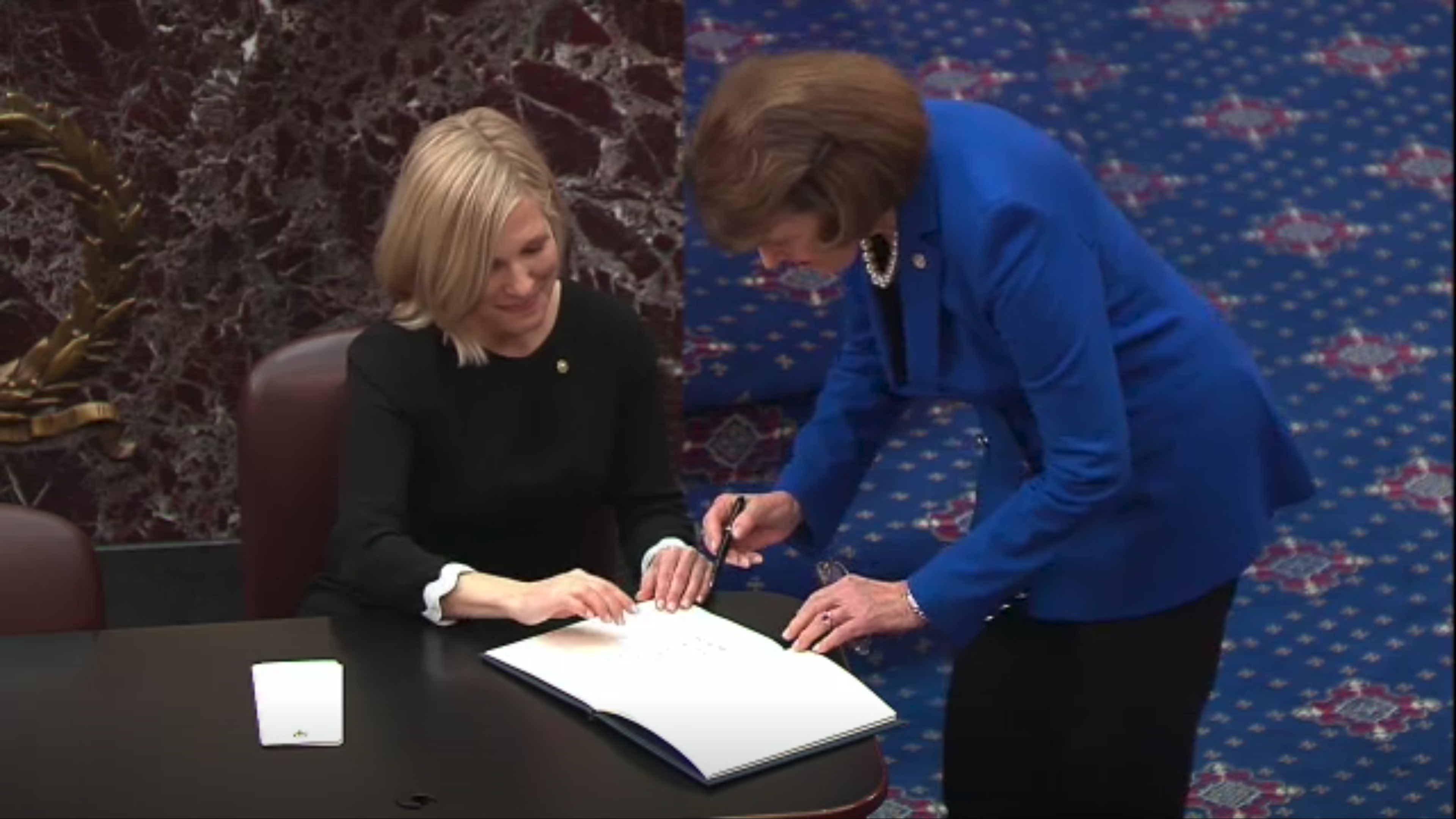 Senator Dianne Feinstein signs the oath book in the opening of the impeachment trial of Donald Trump